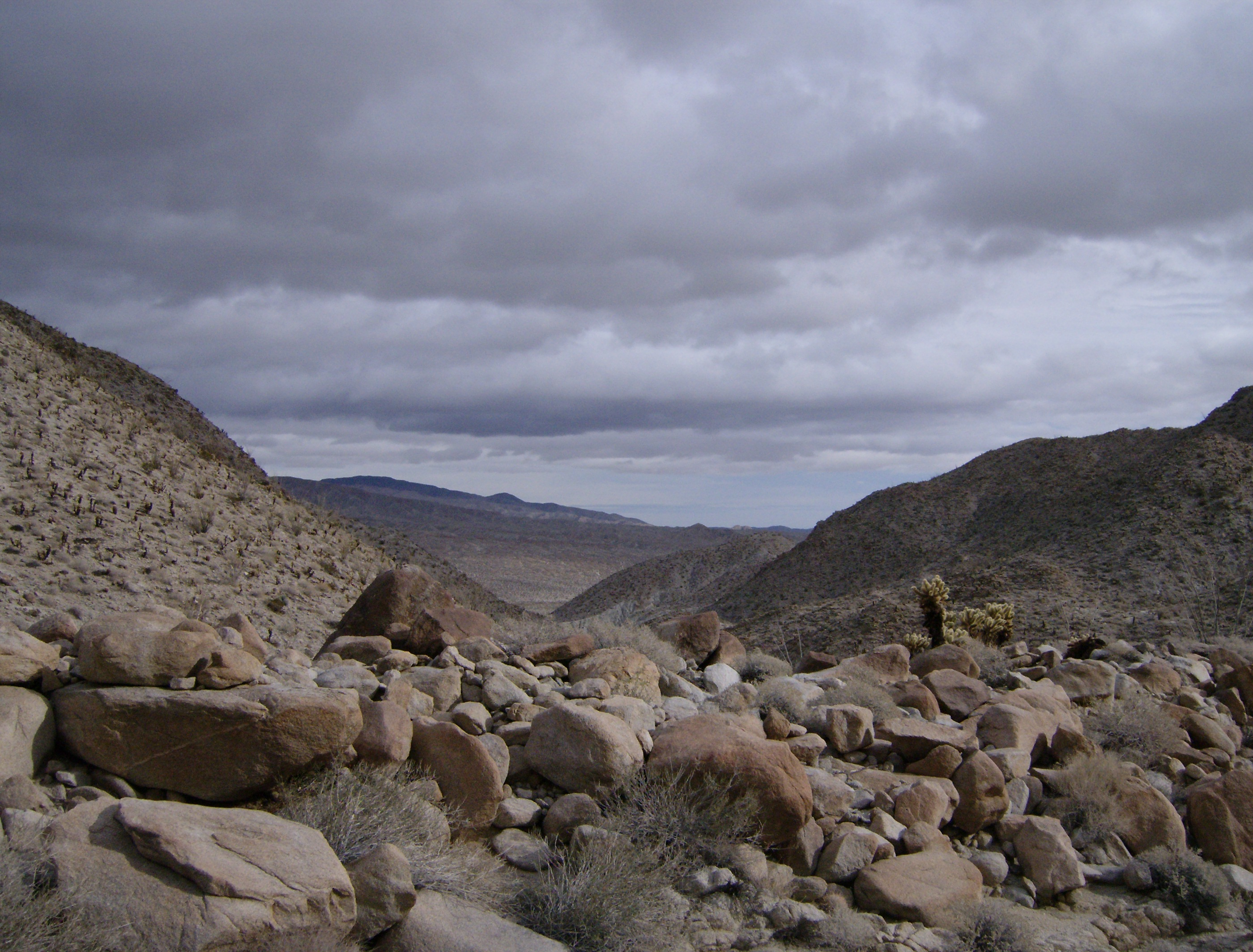 This is a photo of the desert landscape in California, this can be used to show a picture of what a desert in California looks like.